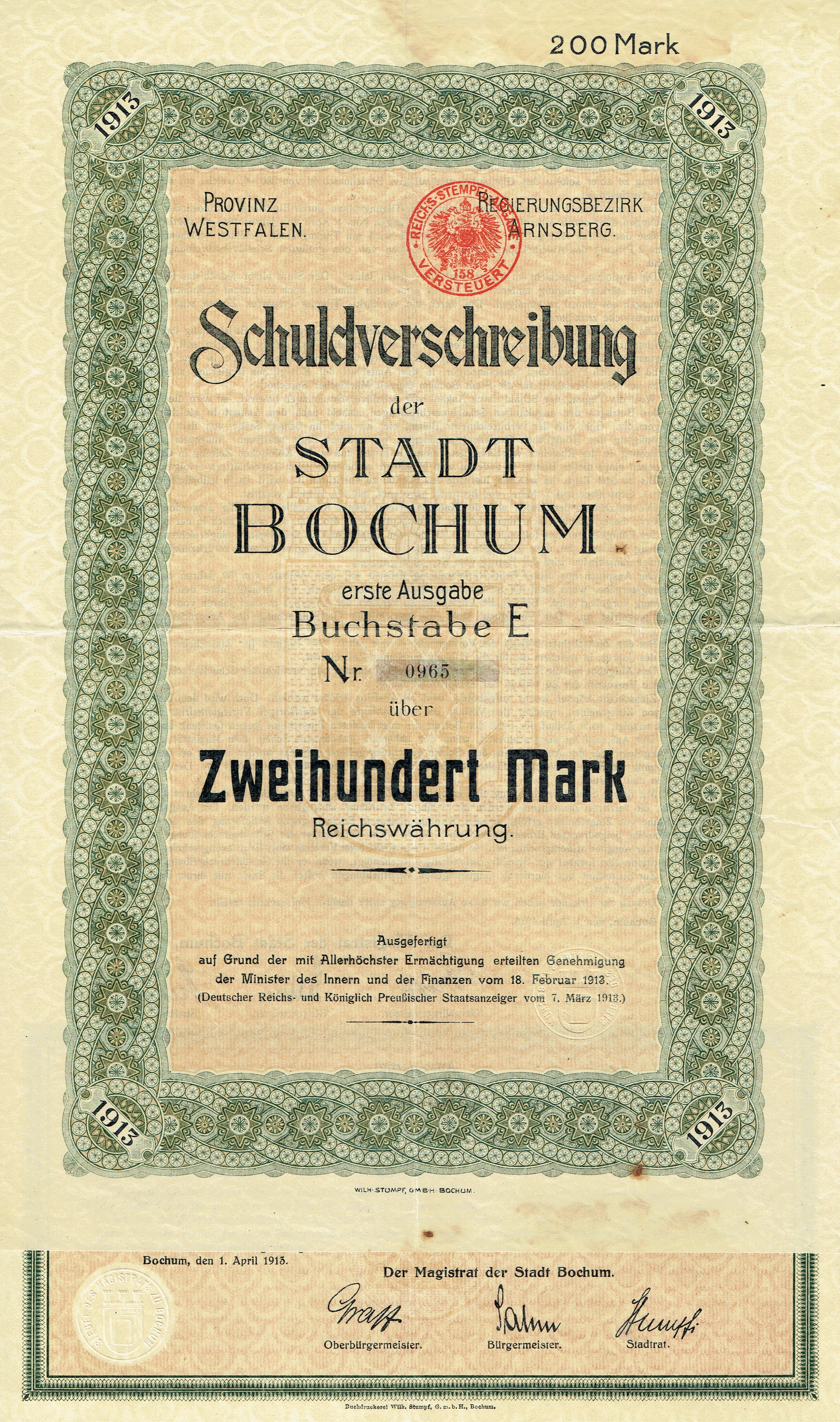 Bond of the City of Bochum, issued 1. April 1913